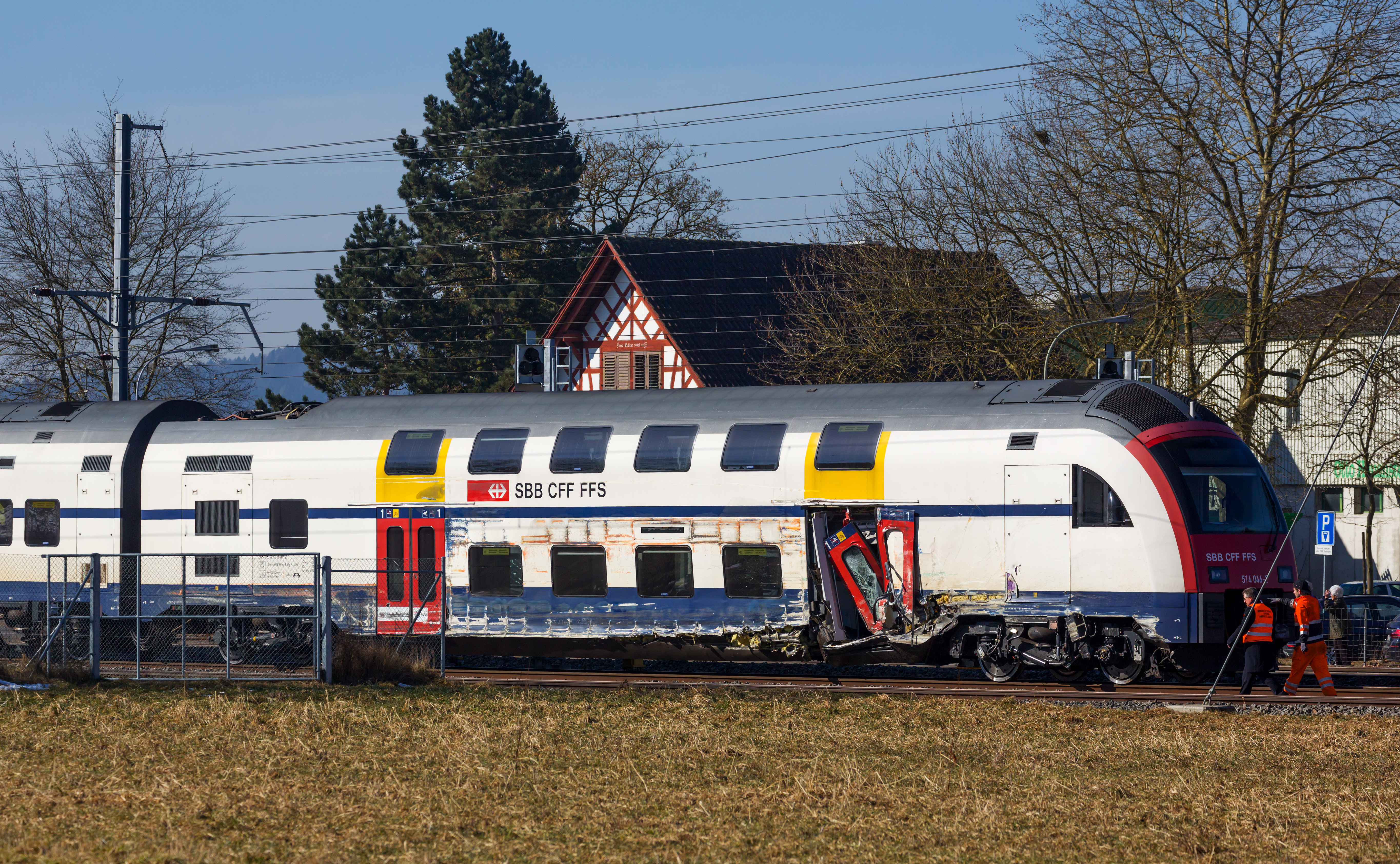 The damaged power head of RABe 514 046.